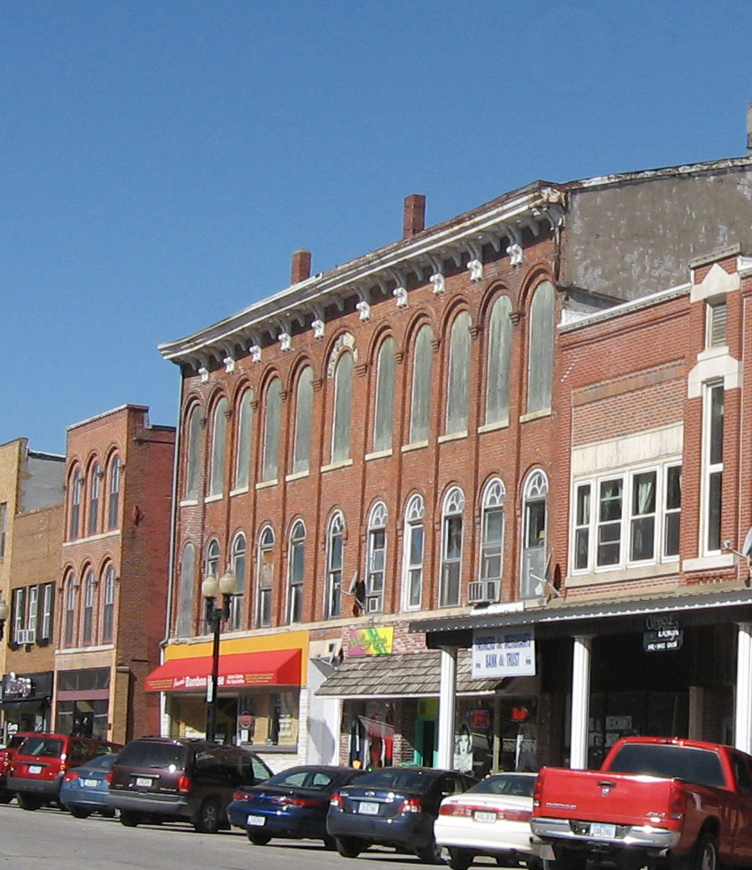 Union Block, Mount Pleasant, Iowa.